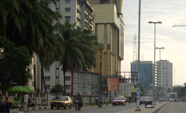 Victoria Island. Personal Photograph. Taken 2007.